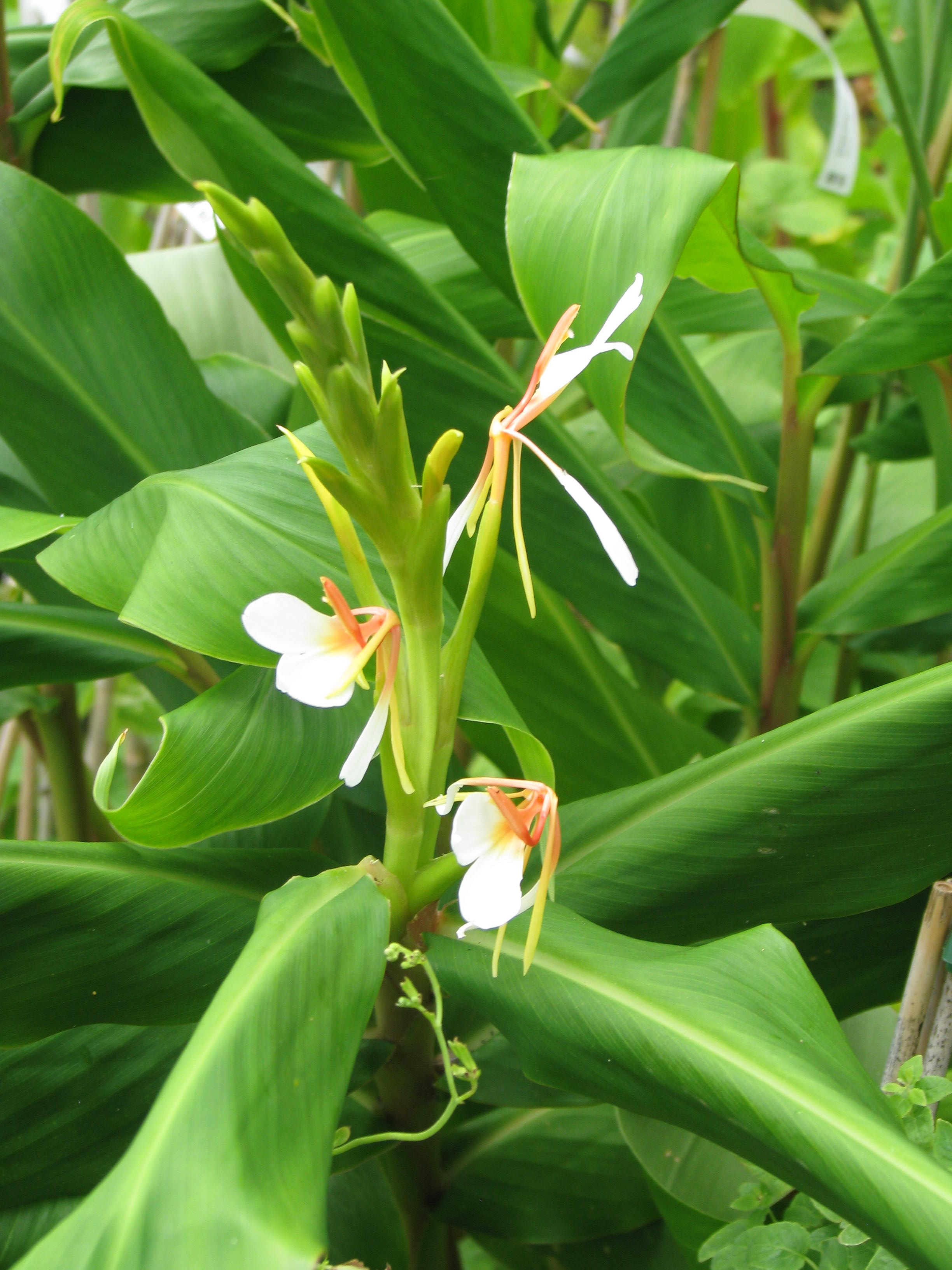 Hedychium spicatum